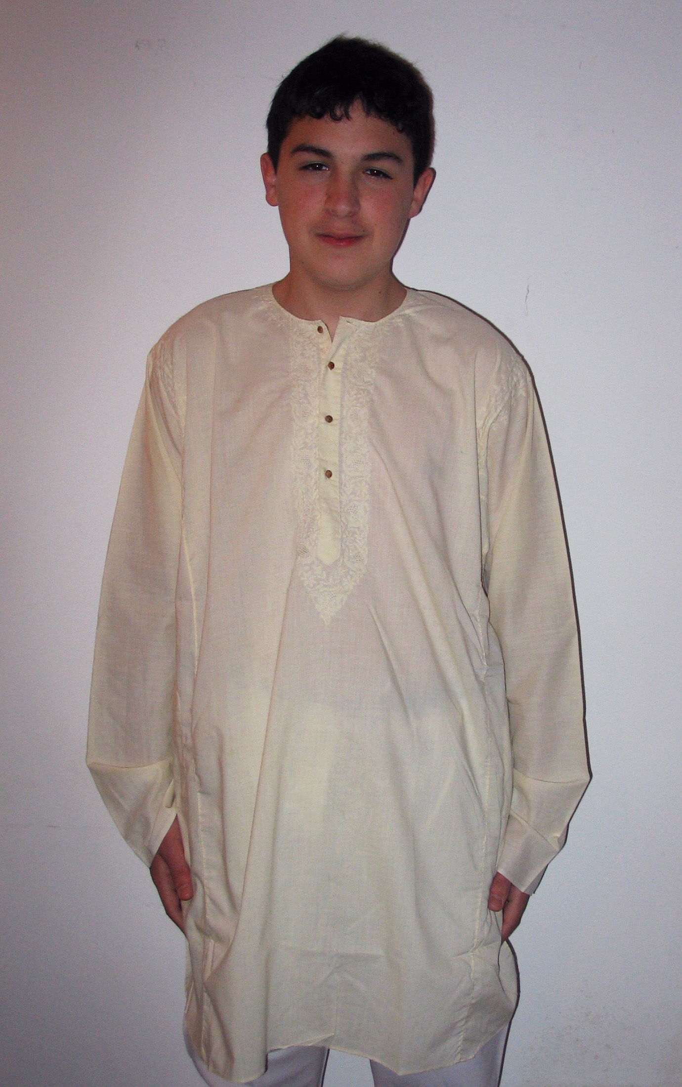 Traditional Chikan embroidery Kurta with sandalwood cuff links style buttons